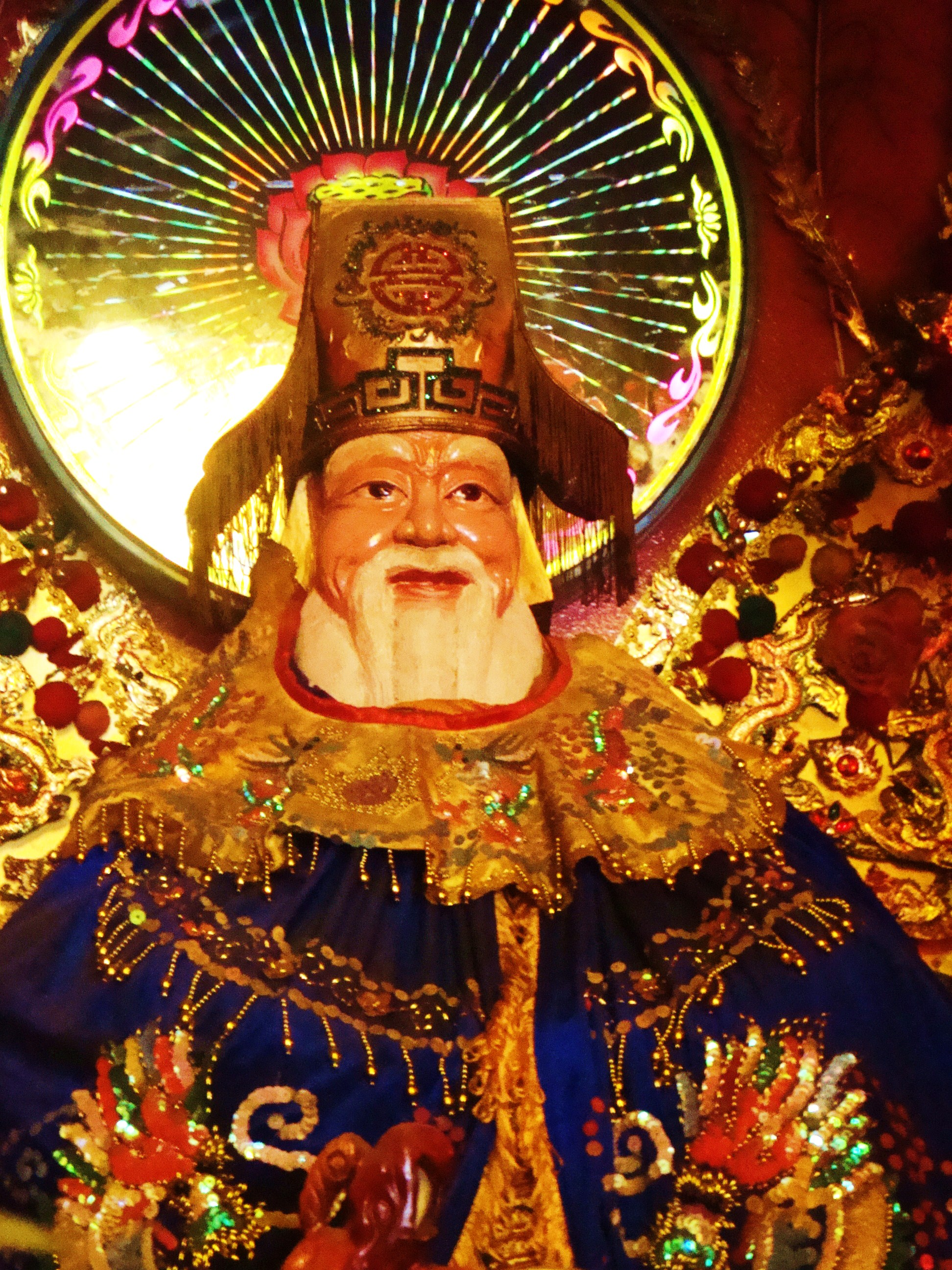 美國洛杉磯天后宮一土地公像。Statue of Tu Di Gong (Earth God) at Chua Ba Thien Hau (Camau Association of America), Los Angeles.